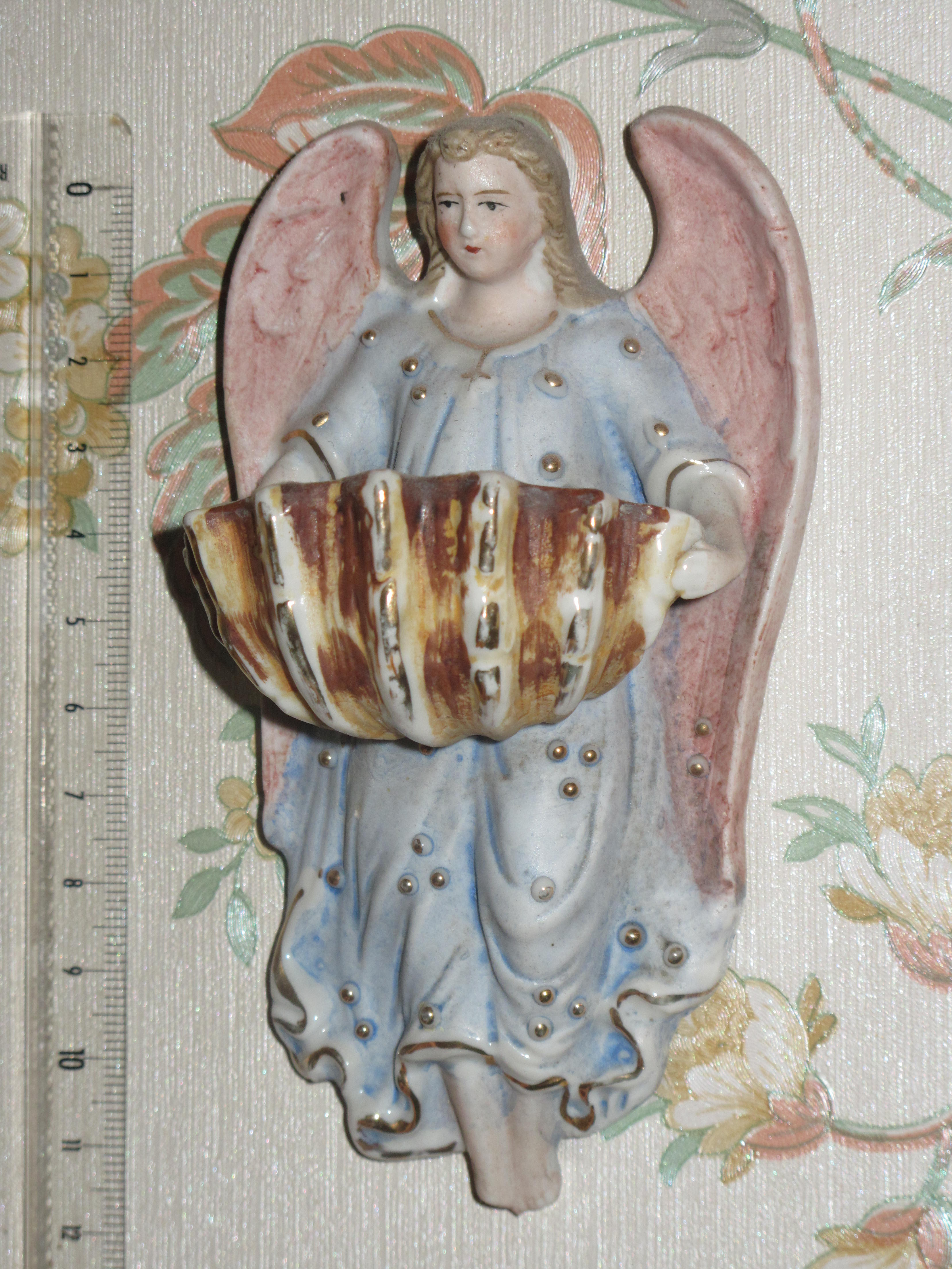 French home stoup. Probable origine : South-West of France